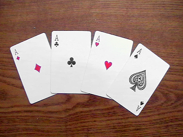 Four aces from a normal type deck.